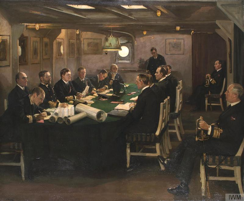 The End- the fore-cabin of "hms Queen Elizabeth" with Admiral Beatty reading the terms of the surrender of the German Navy, rosyth, 16th November 1918 image: The interior of the fore-cabin of HMS Queen Elizabeth with senior Royal Navy and German Navy officers sitting either side of a long table. Admiral Sir David Beatty sits fourth from the left holding a roll of paper in his left hand and reading out the terms of the surrender to the German officers, who sit opposite him. The table is covered in rolls of paper and there are two Royal Navy officers with swords sitting on chairs separate from the table on the right.